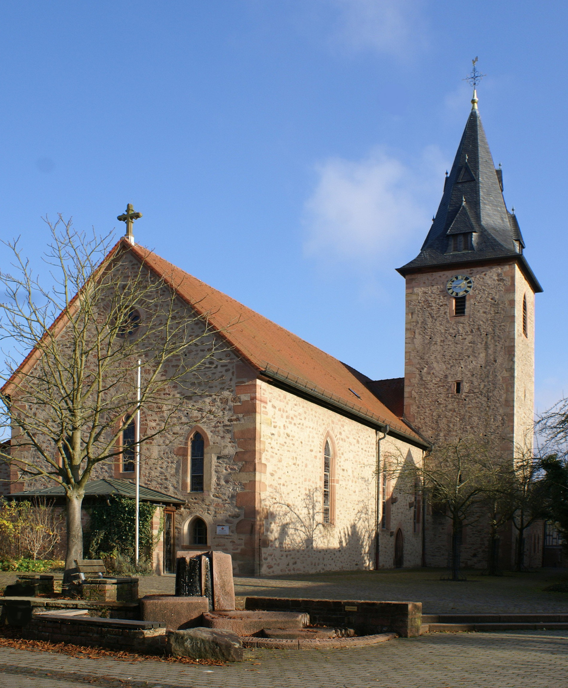 Catholic parish church St. Peter und Paul in Wirtheim